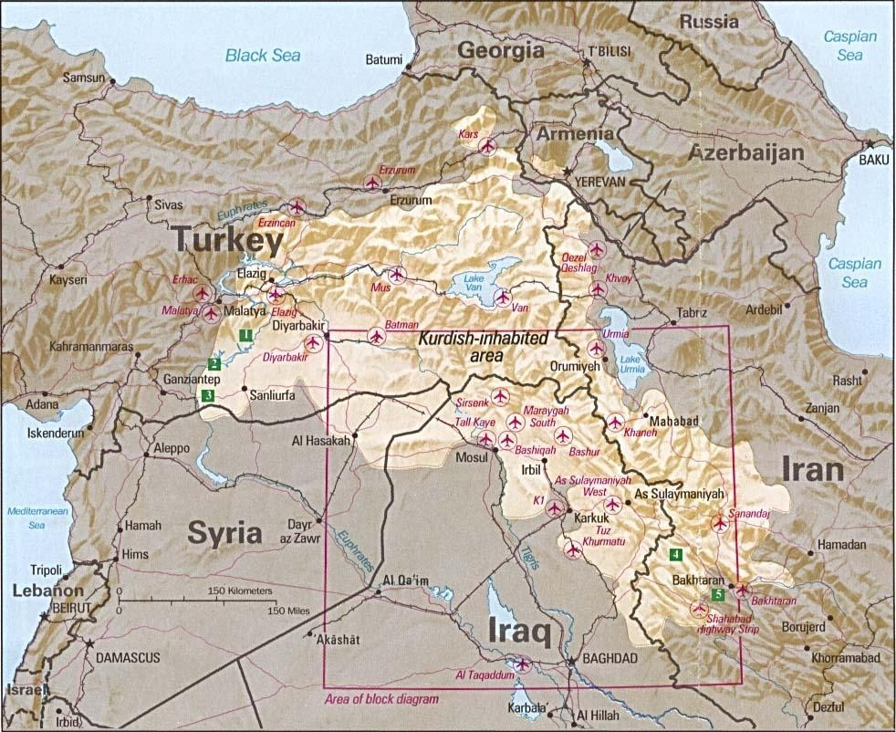 Kurdish-inhabited area, by CIA (1992)